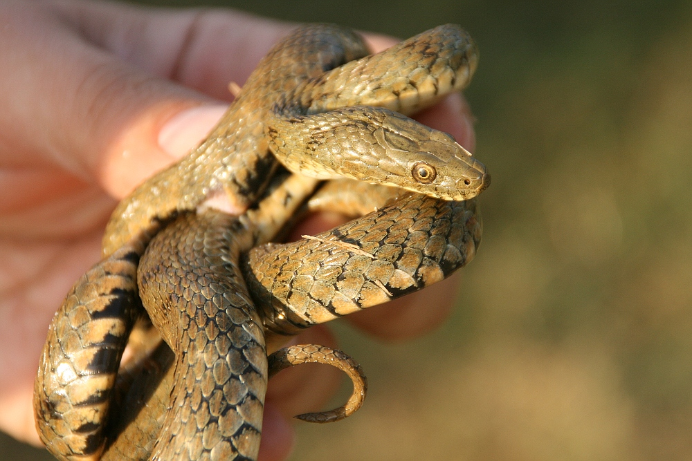 A dice snake Natrix tessellata in Umbria, Italy